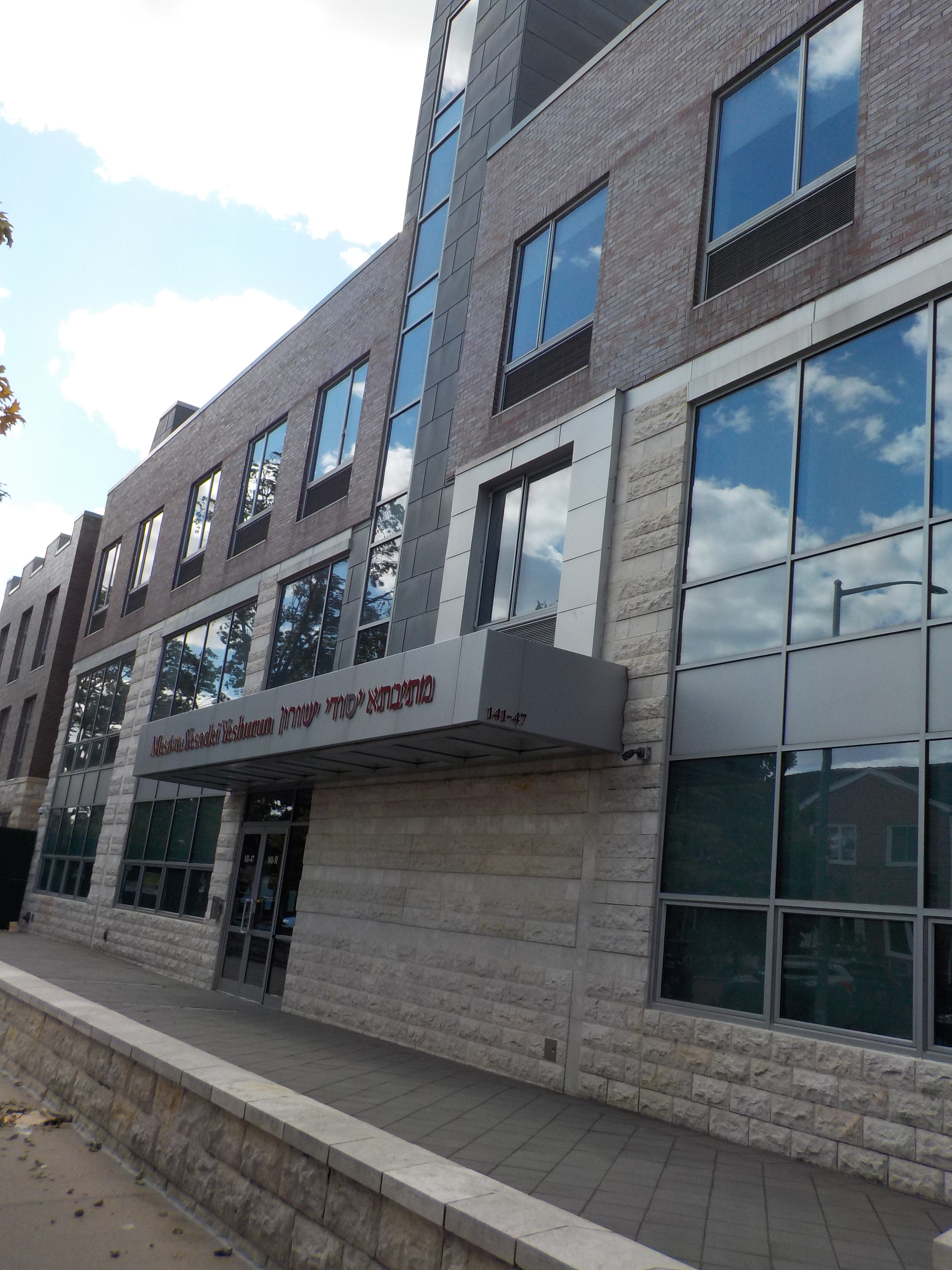 Mesivta Yesodei Yeshurun, the high school of Yeshivas Ohr HaChaim, Kew Gardens Hill 2020